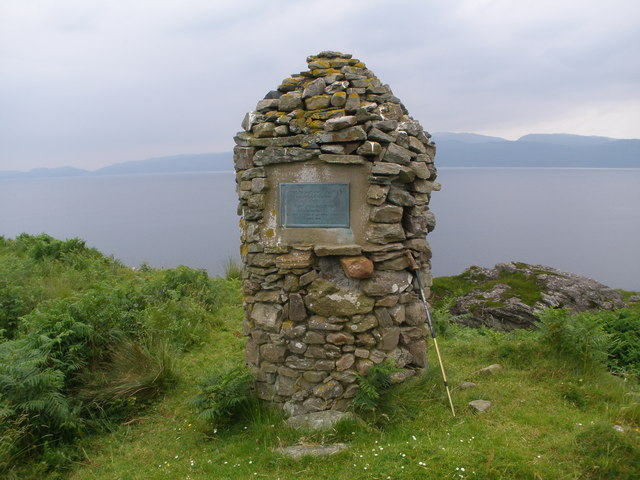 Monument on Rubha Beag overlooking Loch Fyne. Inscription reads 'Site of MacEwen Castle an enduring memorial to Clan Ewen of Otter. Reviresco Erected by the Clan Ewen Society. June 1990.'